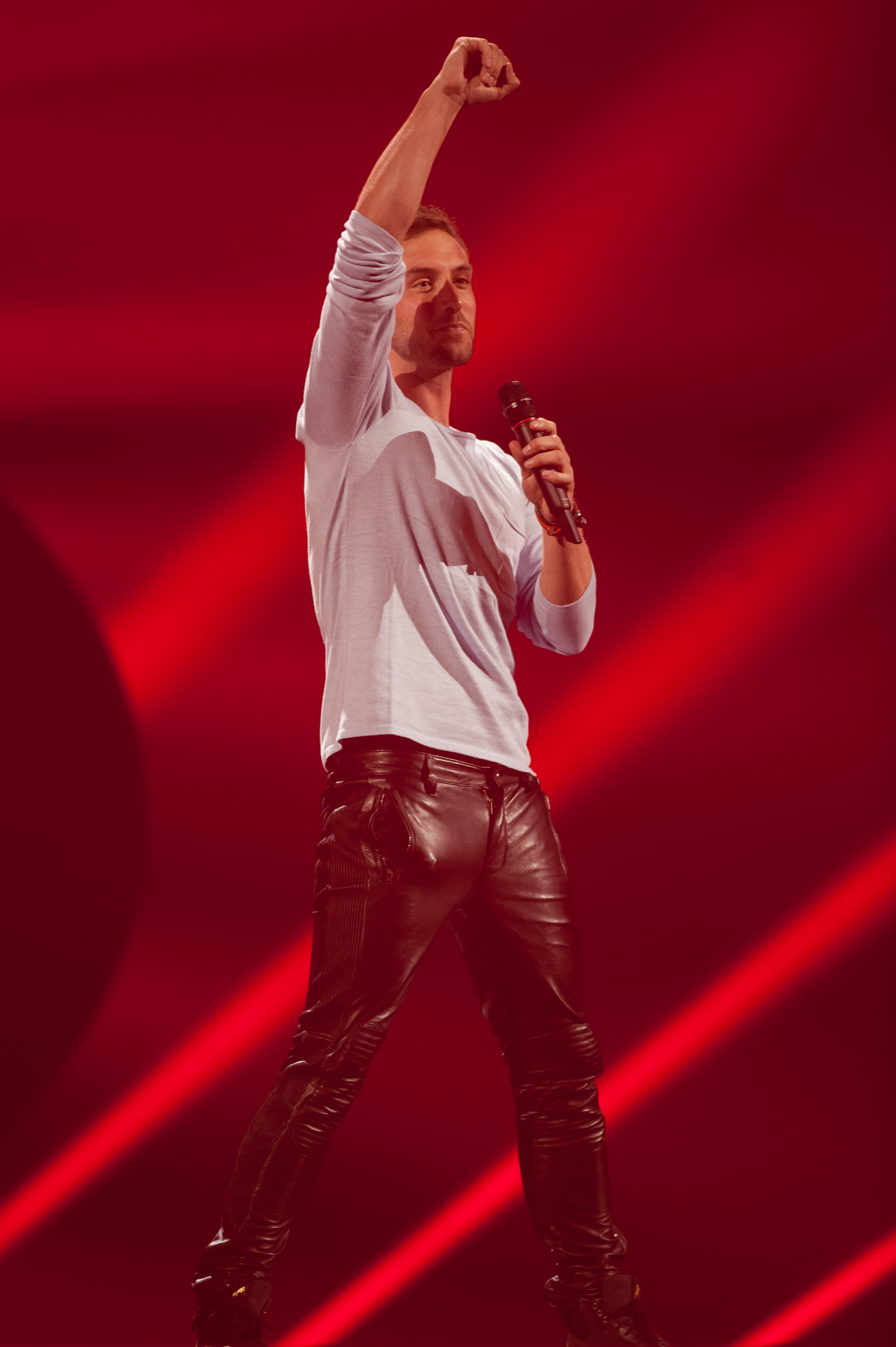 Eurovision Song Contest Vienna 2015: Måns Zelmerlöw